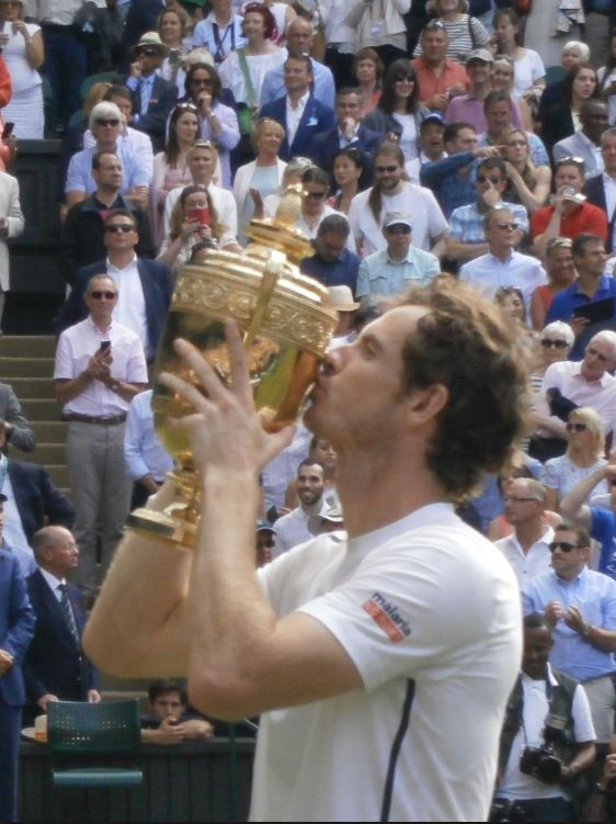 Andy Murray wins Wimbledon 2016